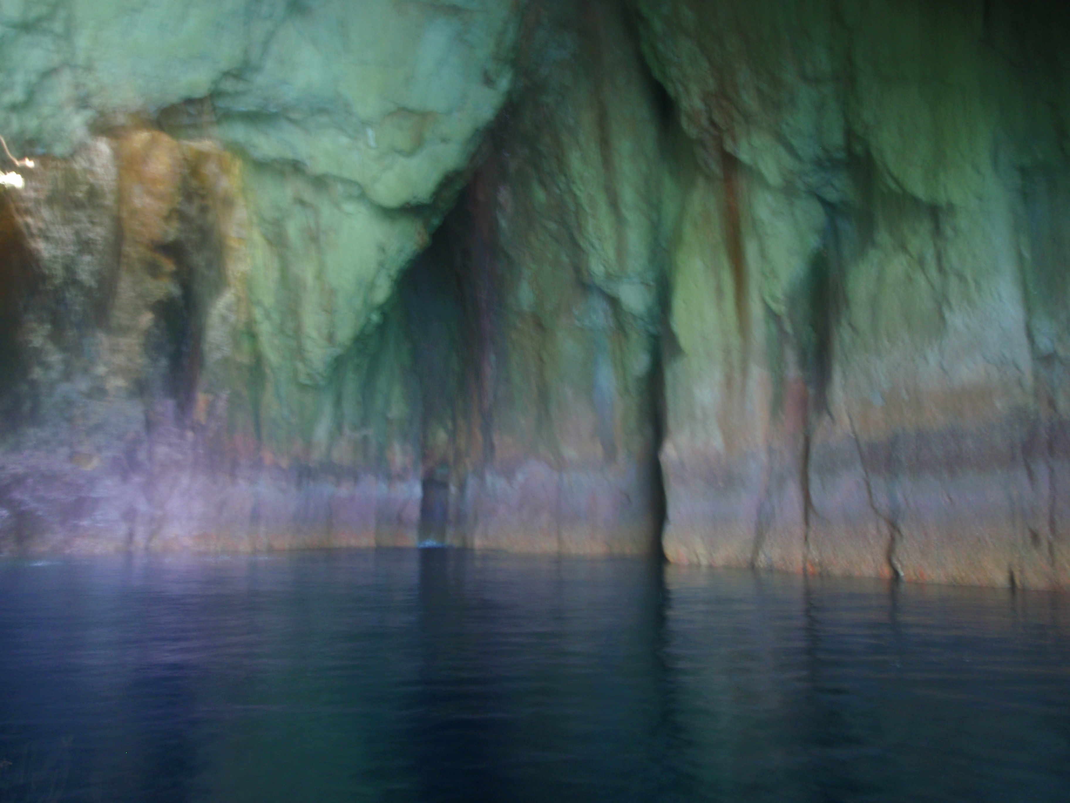 Interior of sea cave on east side of Aorangaia, Poor Knights Islands, New Zealand